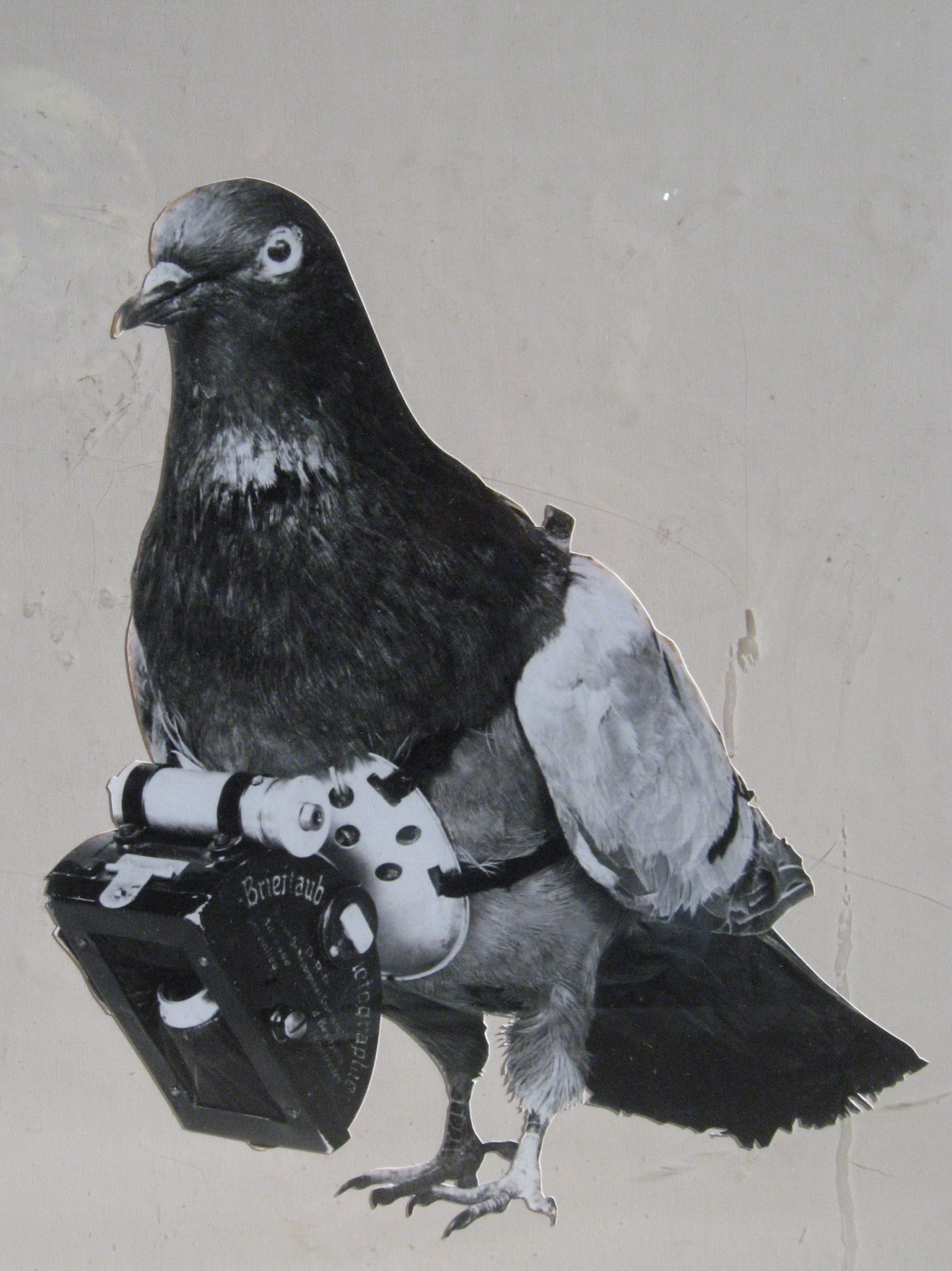 1903, Dr Julius Neubronner patented a miniature pigeon camera activated by a timing mechanism. The invention brought him international notability after he presented it at international expositions in Dresden, Frankfurt and Paris in 1909–1911. Spectators in Dresden could watch the arrival of the camera-equipped carrier pigeons, and the photos were immediately developed and turned into postcards which could be purchased. See photos here: File:Pigeon wingtips.jpg Photograph of a photo in the National Air & Space Museum Spy Technology Section.